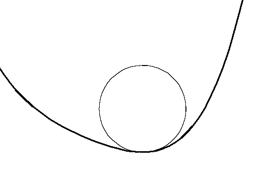 A circle with 2-point contact, tangent. Author R.Morris Created using [SingSurf using equation X = x; Y = a x^2 + b x^3 + c x^4; Z = 0; a = 0.5; b=0.3; c=0.1; and a circle radius 0.6